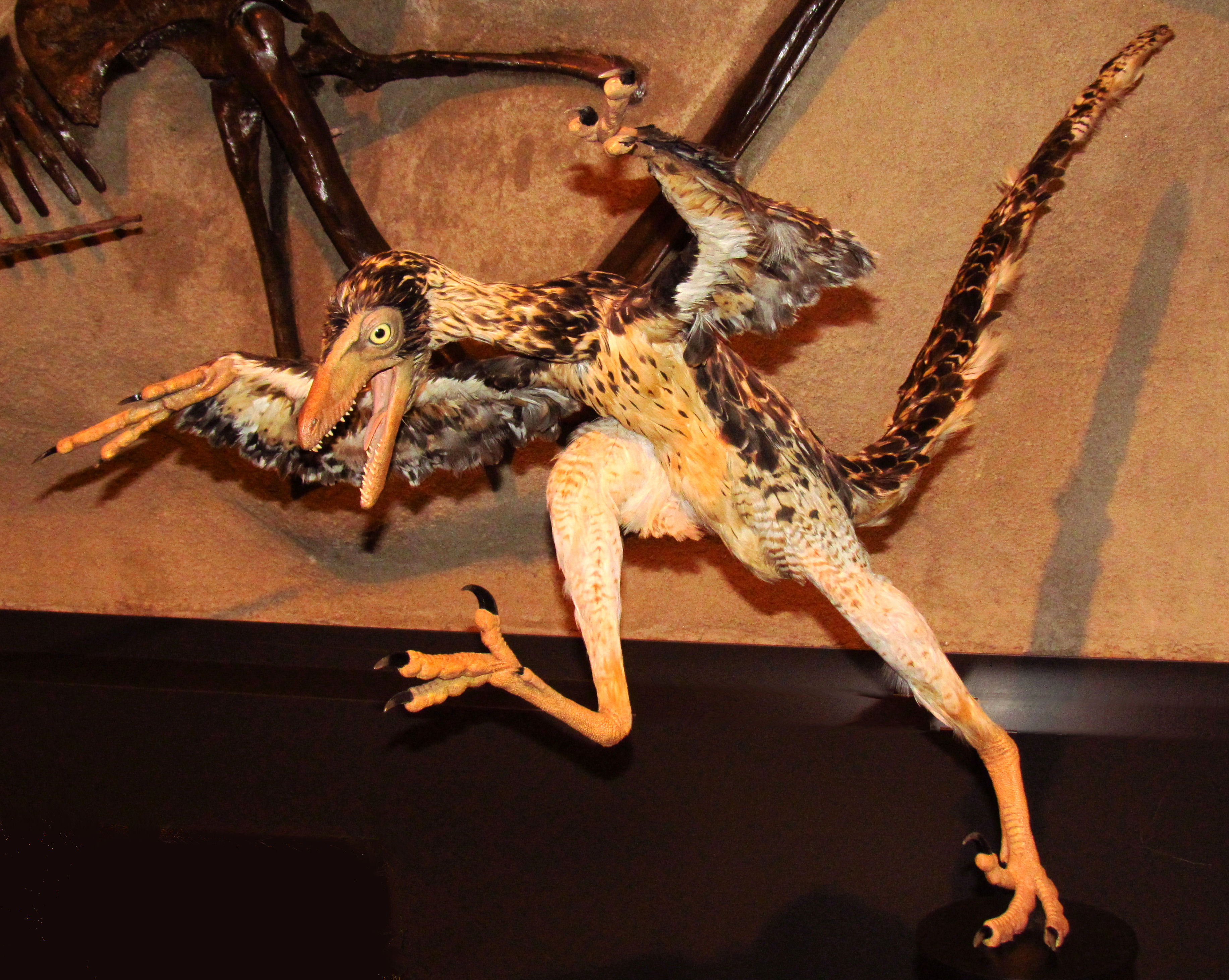 Sinornithosaurus millenii, reconstruction, Canadian Museum of Nature, Ottawa, Ontario, Canada